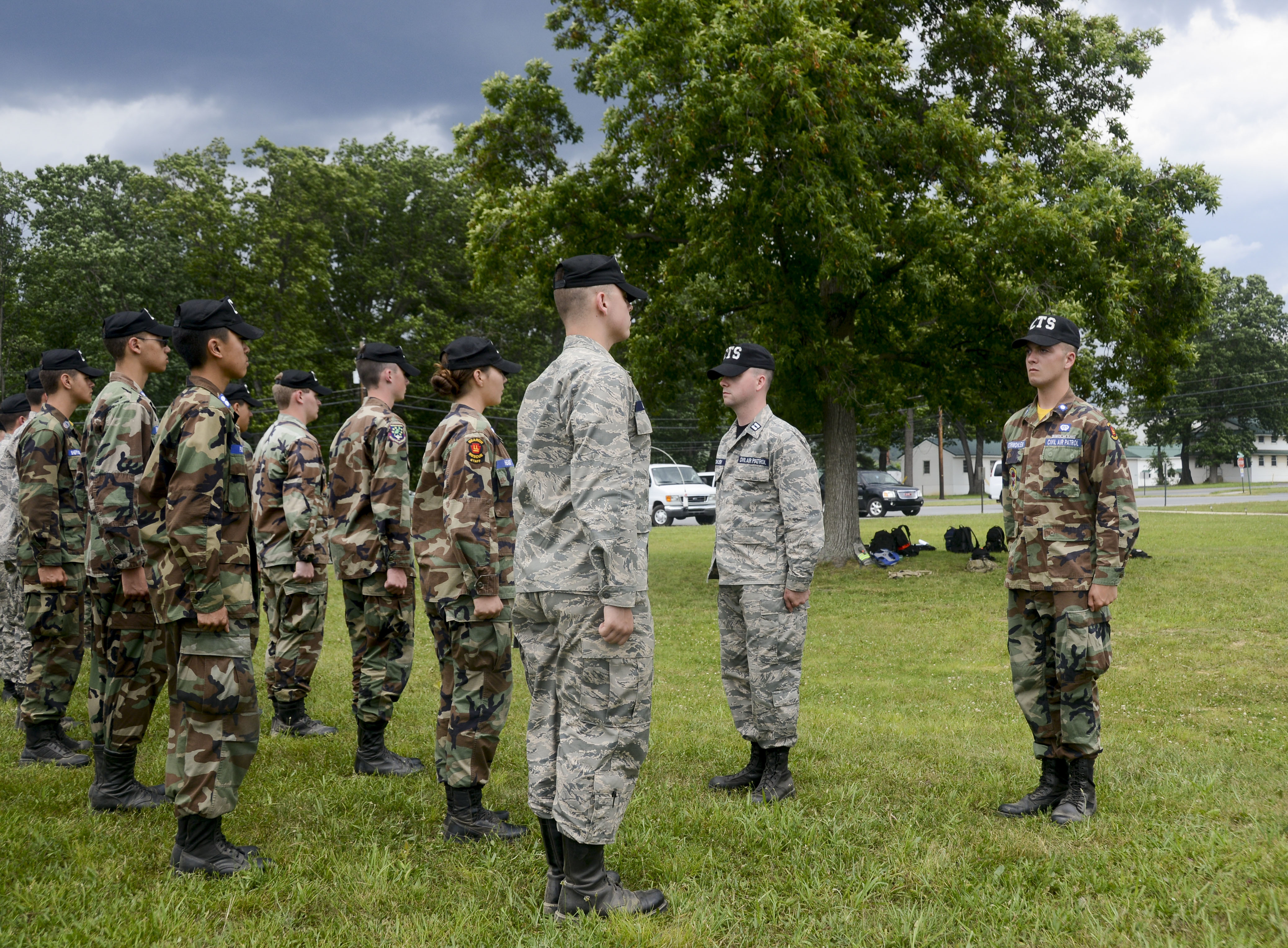 Shawn (left) and Kevin Utermohlen both Airman 1st Class Shawn Utermohlen, both with the 1st Detachment, 201st Rapid Engineer Deployable Heavy Operational Repair Squadron Engineer Squadron,111th Attack Wing and Civil Air Patrol leaders, conducted an inspection of a flight of Civil Air Patrol cadets during their summer encampment June 21, 2017 at Fort Indiantown Gap. (U.S. Army National Guard photo by Sgt. Zane Craig)